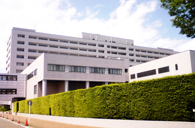 Fukushima Medical University Hospital 1 Hikarigaoka, Fukushima, Fukushima, Japan